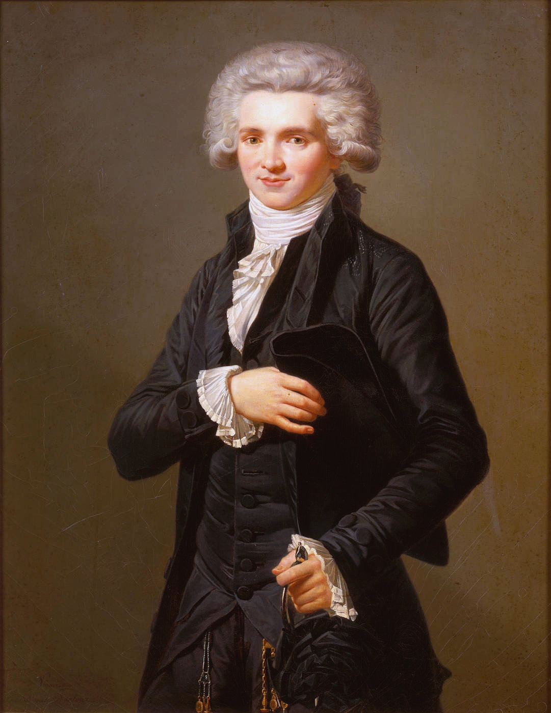 Portrait of Maximilien Robespierre